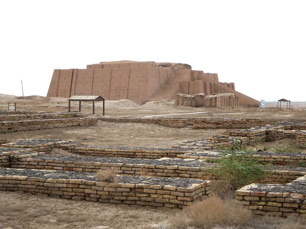 Ur City in Nasiriyah